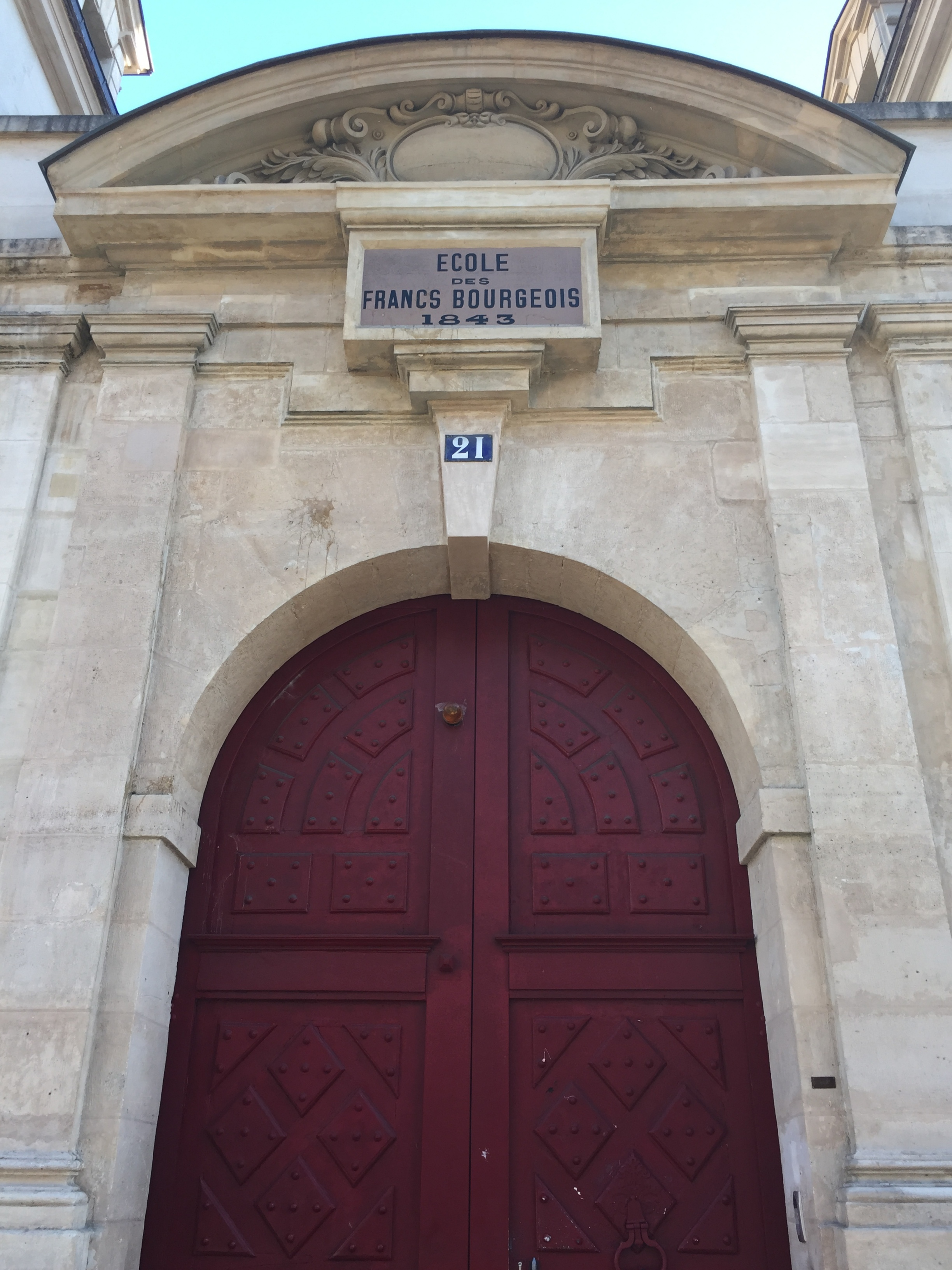 This photograph was taken with an iPhone 6